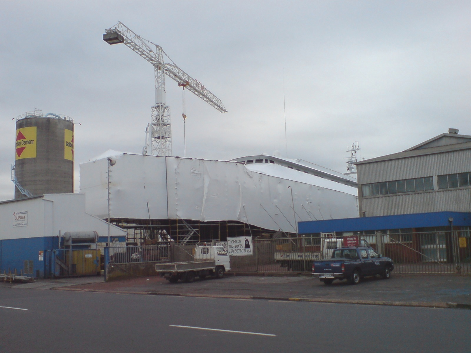 Shipbuilding / maintenance facilities are to remain a significant feature on the Western Reclamation, Auckland City, New Zealand. Looking west from southern Hamer Street.